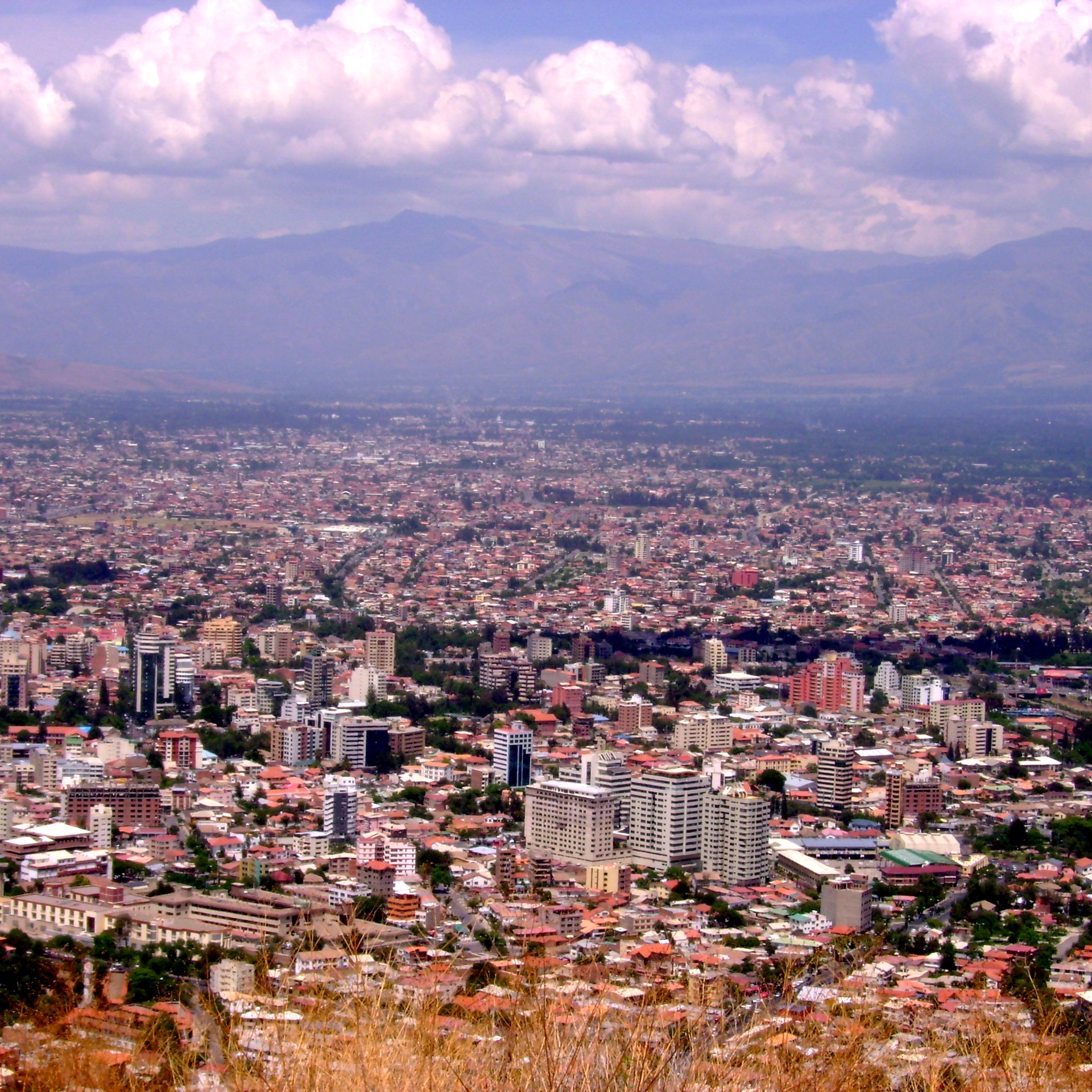 View of Cochabamba, Bolivia.